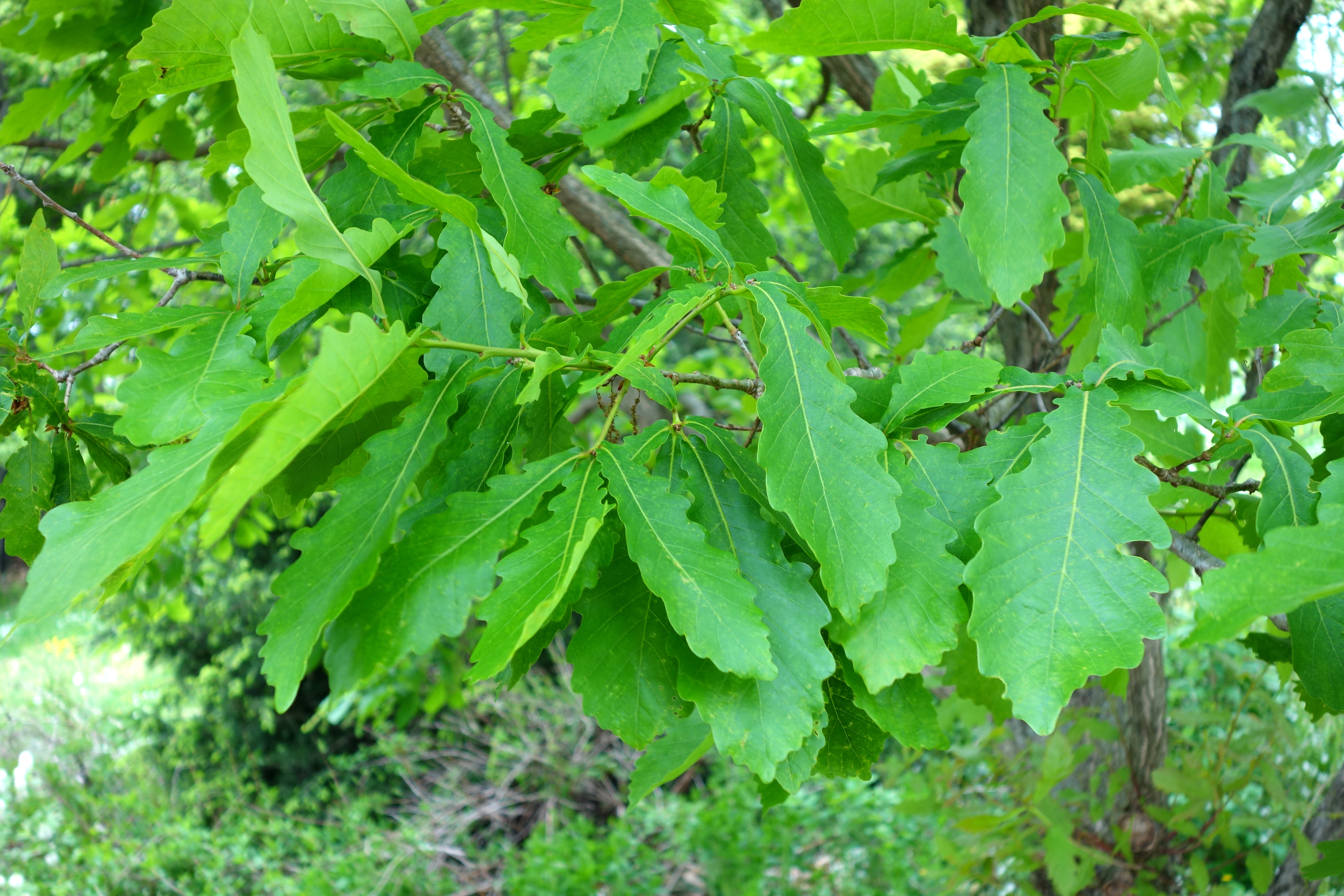 Botanical specimen in the Morris Arboretum, 100 East Northwestern Avenue, Chestnut Hill, Philadelphia, Pennsylvania, USA.